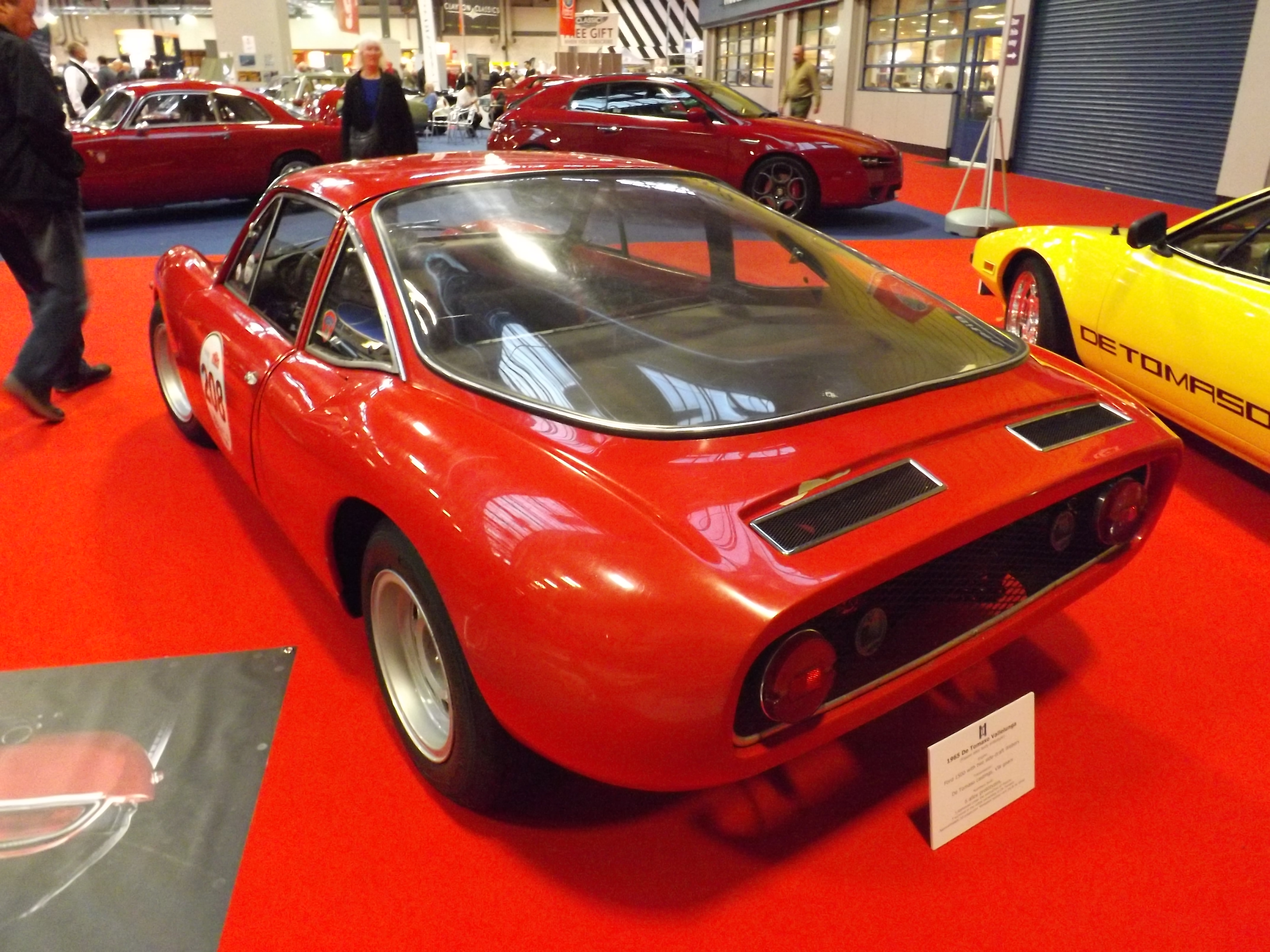 Designed by Carozzeria Fissore, Built by Ghia, 1500cc Ford Cortina engine with a VW Beetle transaxle